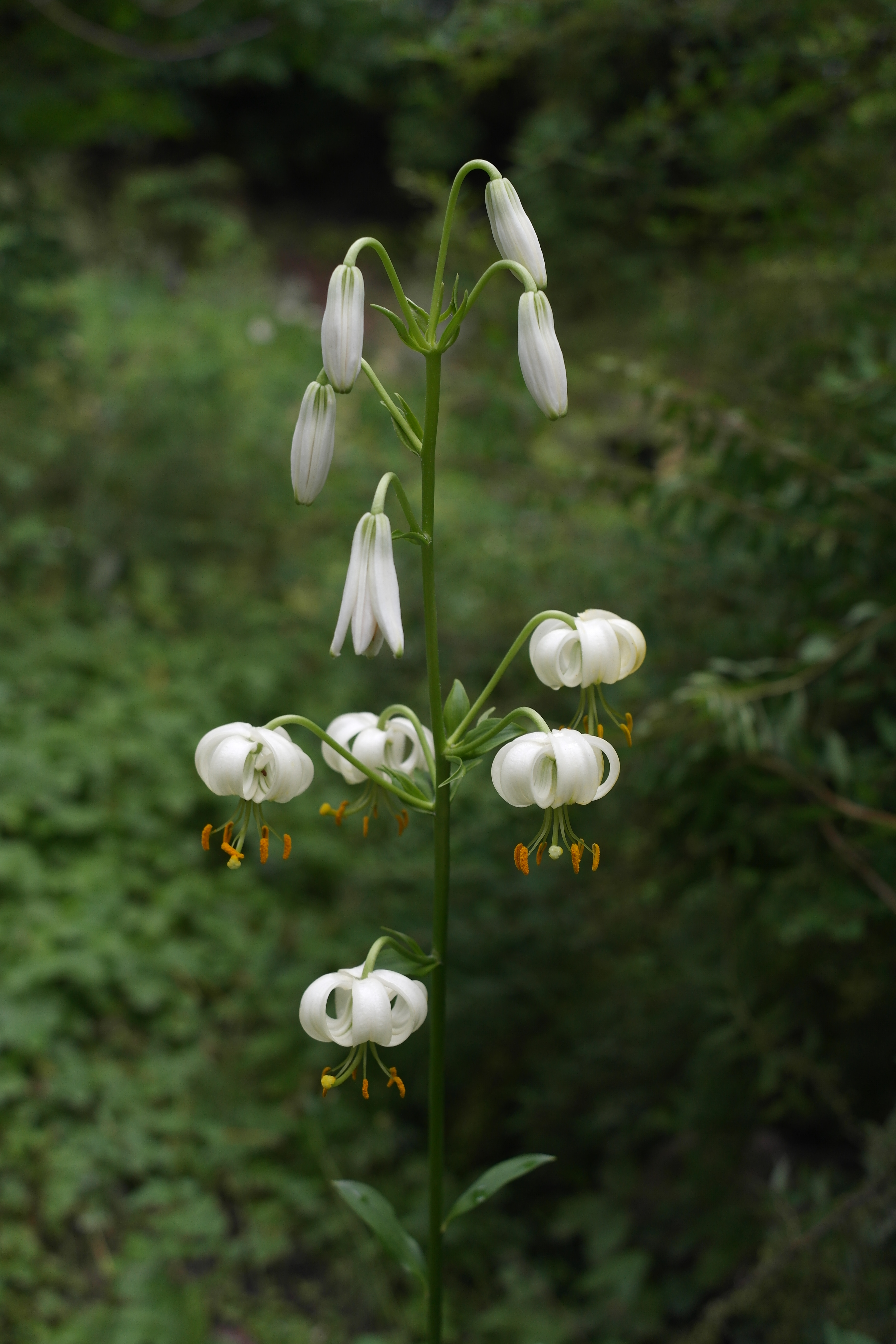 Lilium martagon